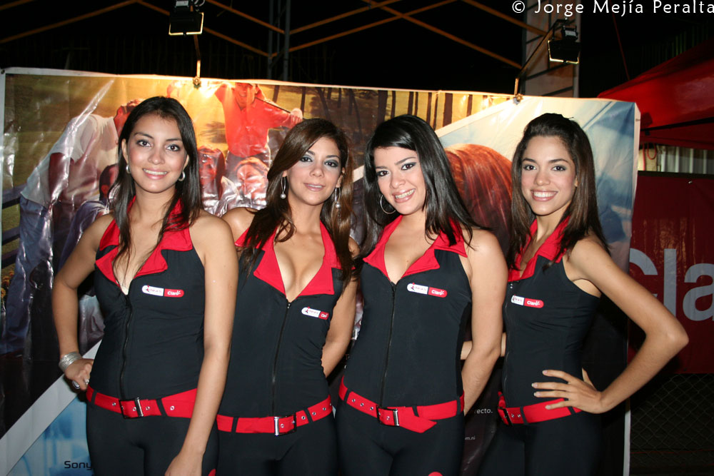 Before the concert of Sean Paul, the best thing.